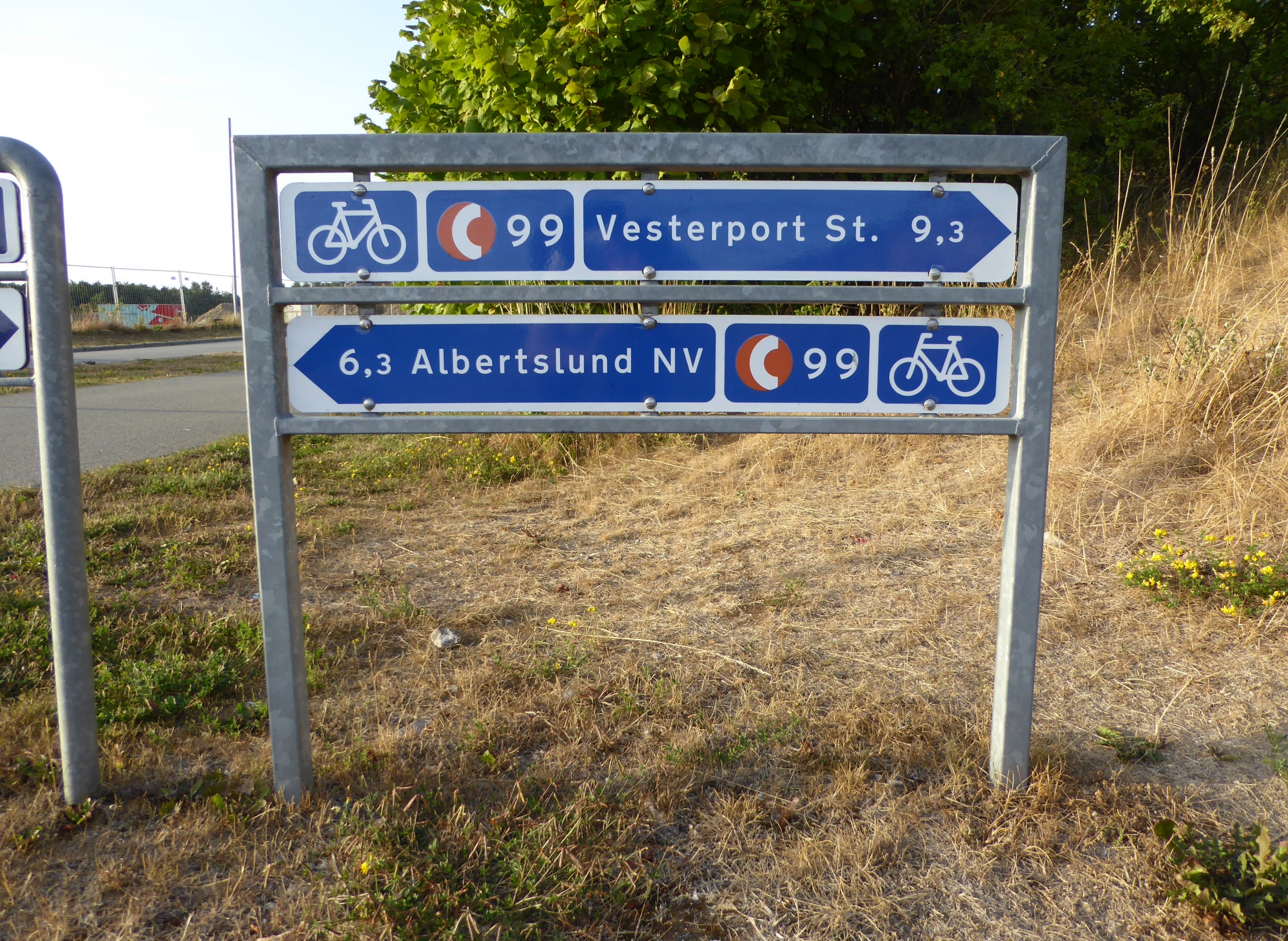 Signs of the walking path and cykling route Vestegnsruten and the super bikeway Albertslundruten at Sortevej in Glostrup in Copenhagen.